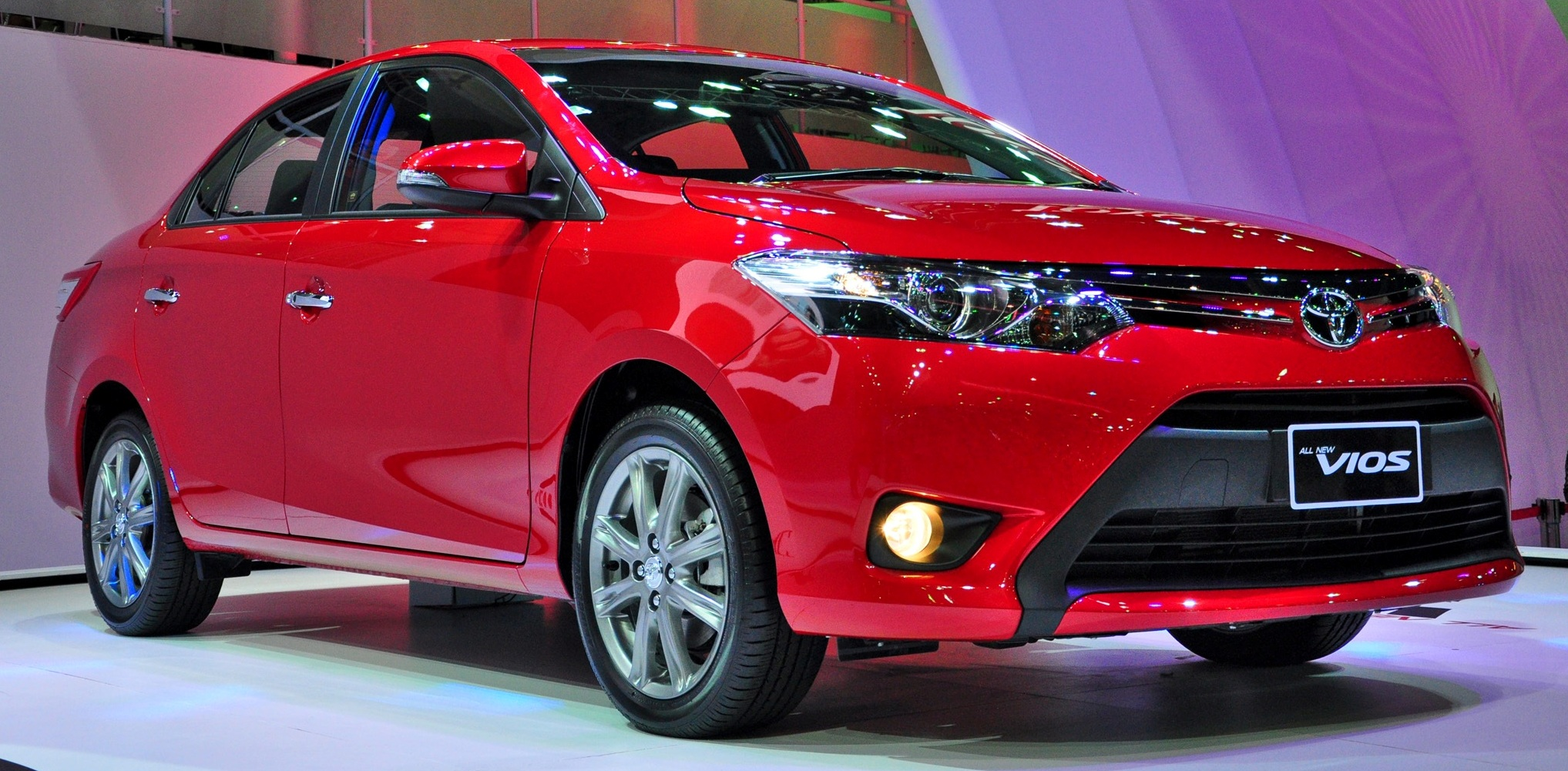 Third generation Toyota Vios.